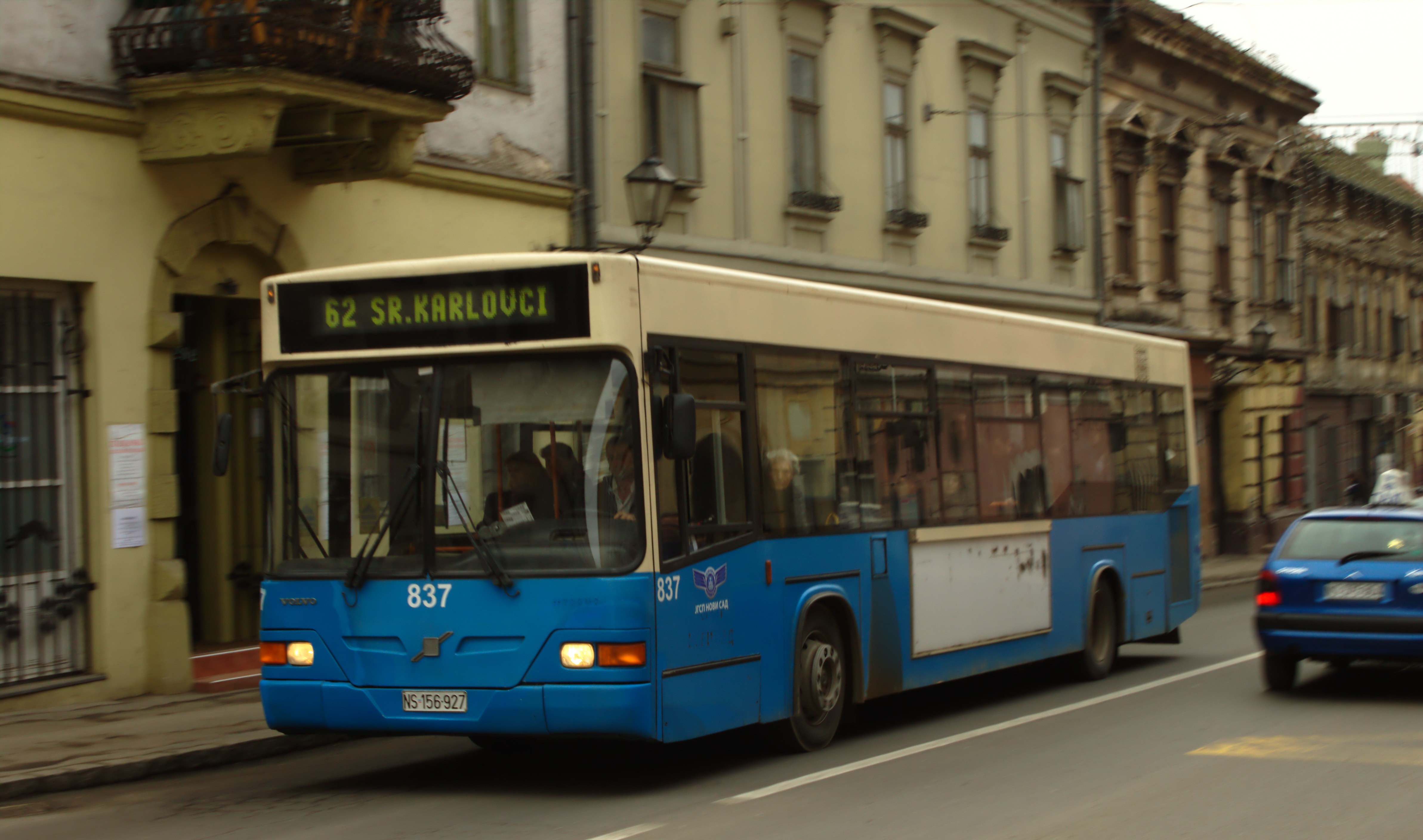 A city bus on Beogradska street in Petrovaradin, Novi Sad, Serbia